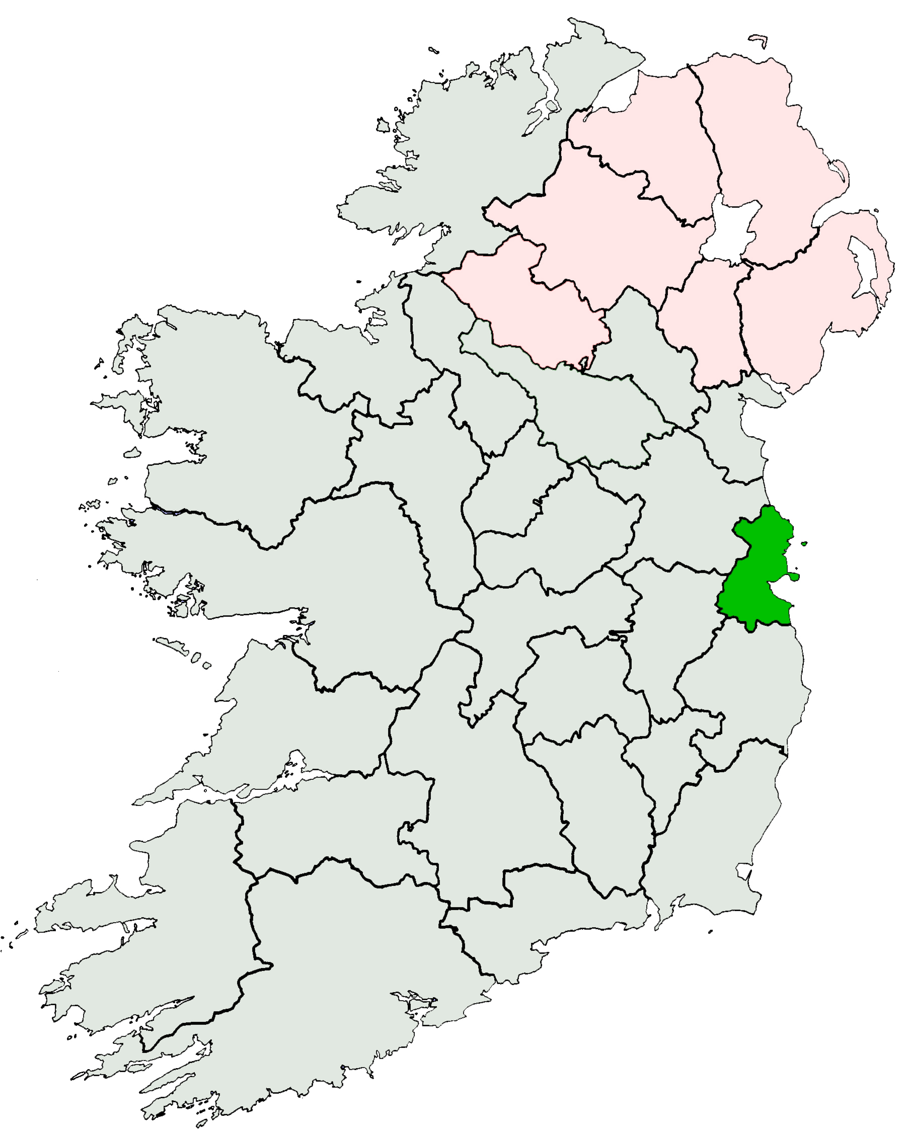 County Dublin highlighted on an outline map of Ireland.